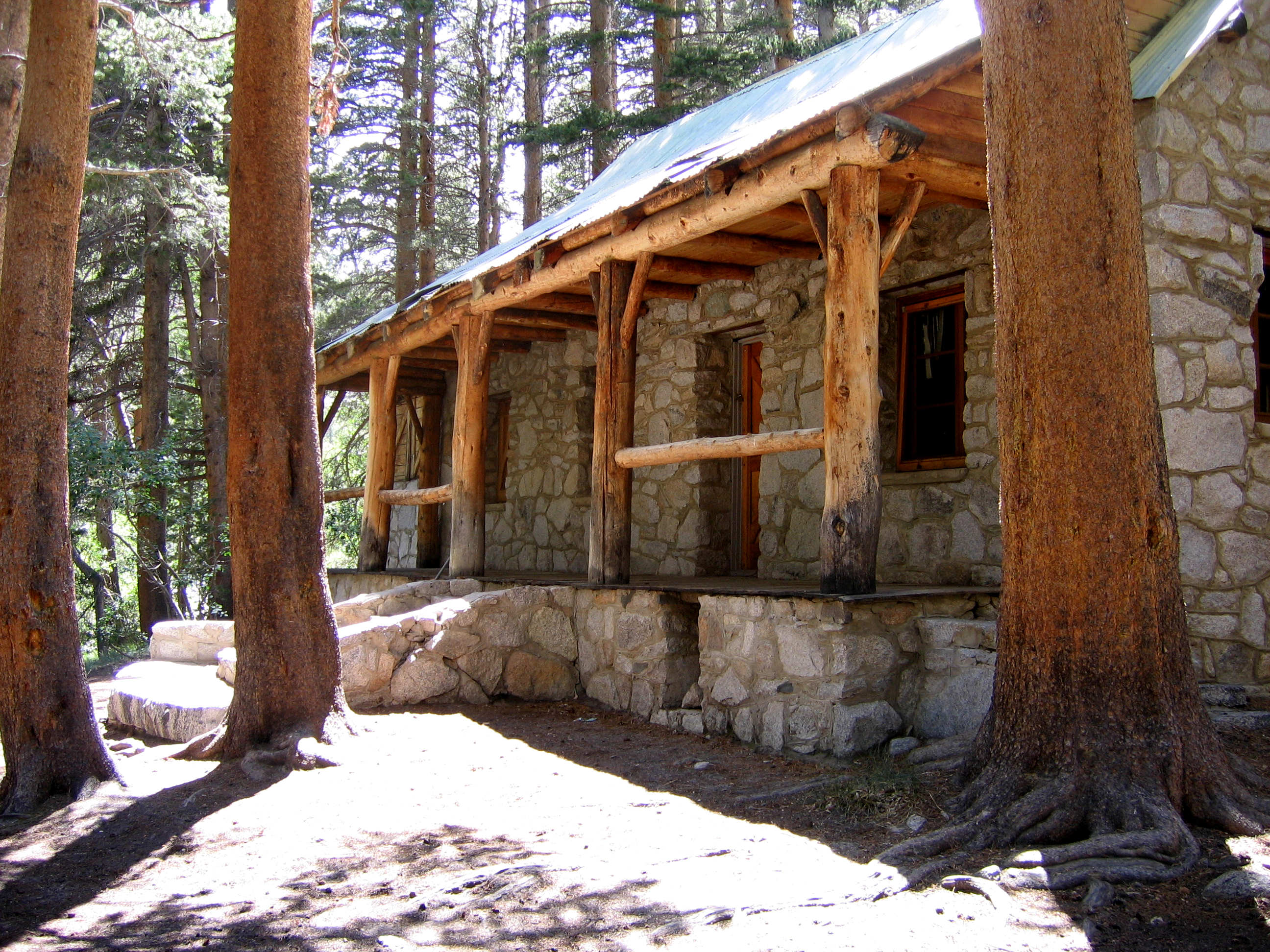 Lon Chaney Sr. High Sierra House, front view. The cabin is located in the Inyo National Forest, about 2.5 miles (4.0 km) from the Big Pine Creek trail head next to the north fork of Big Pine Creek, Eastern Sierra. The cabin was designed by Paul R. Williams, a noted architect, and was built in 1929.